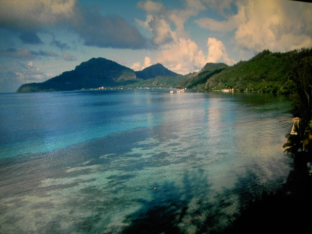 Mangareva Island, Gambier Islands